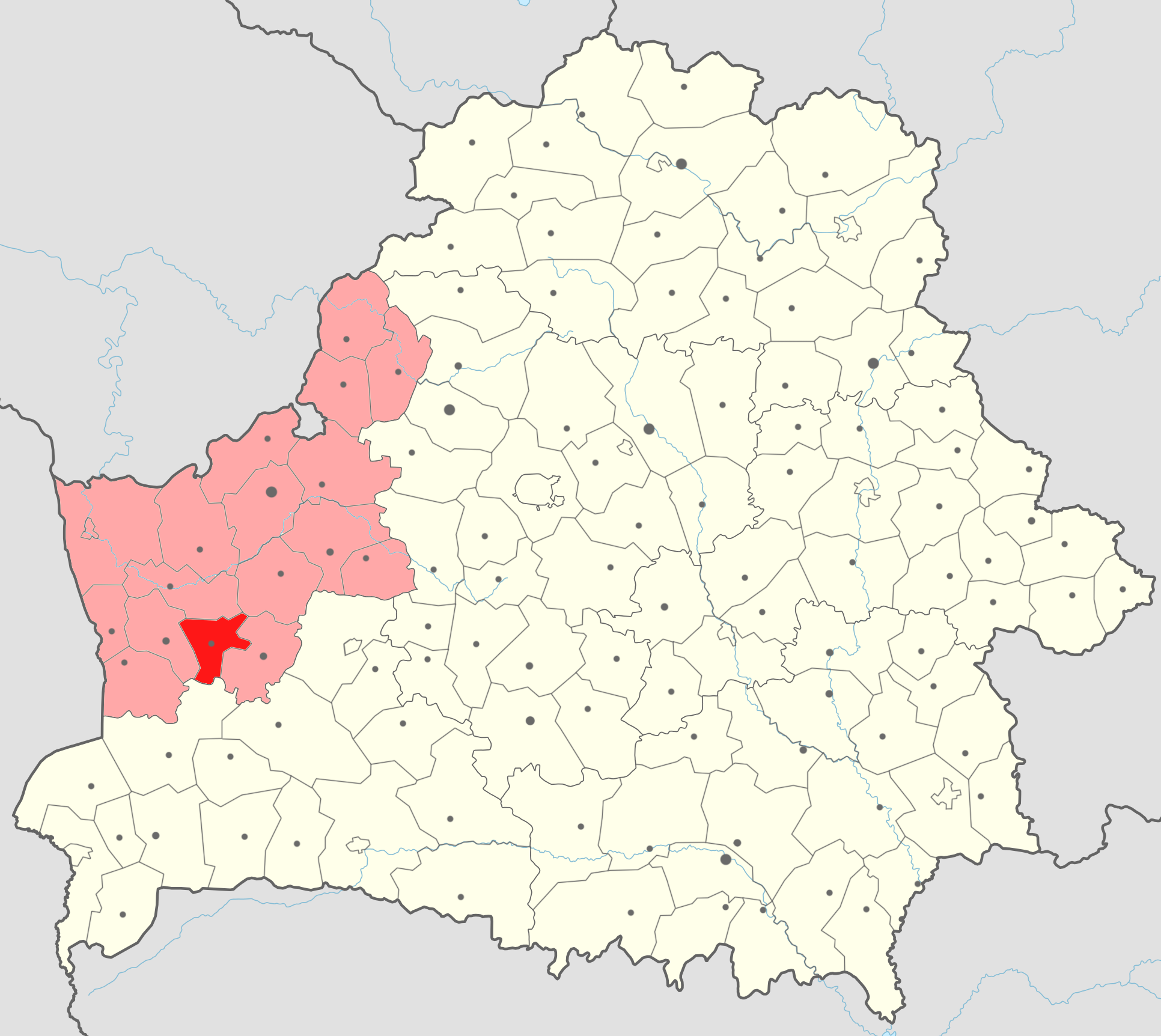 Map of Zeĺvienski rayon (in red) with Hrodna voblast' (in light red) on the map of Belarus.